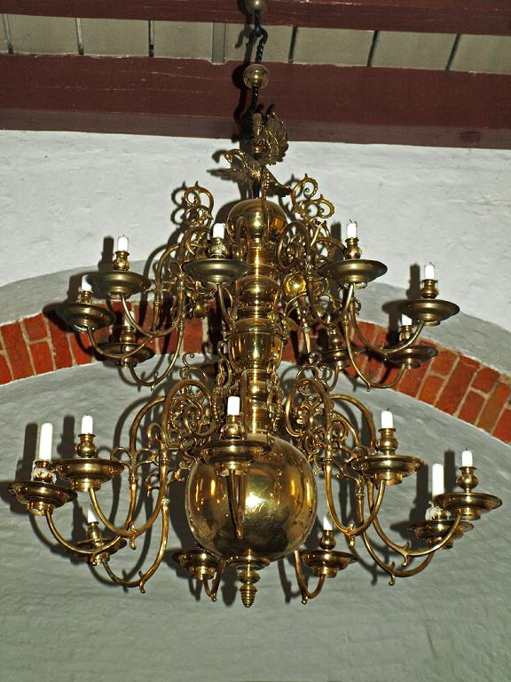 Morsum (Sylt), Slesvic-Holstein (Germany): church, chandelier, photo 2008